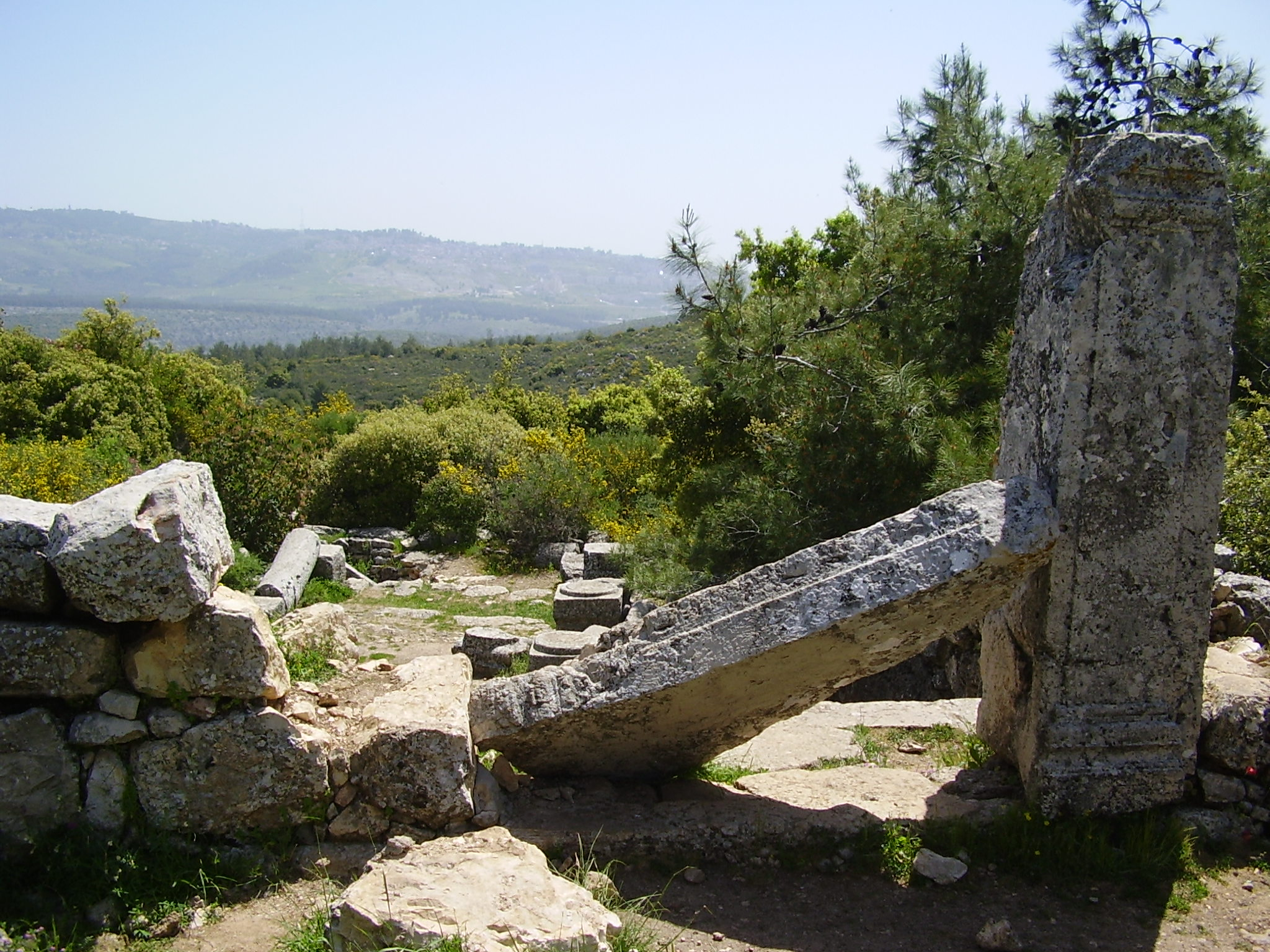 Synagogue in Hurvat Shema on Mt. Meron